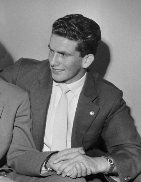 Tommy Troelsen after a match against Norway.